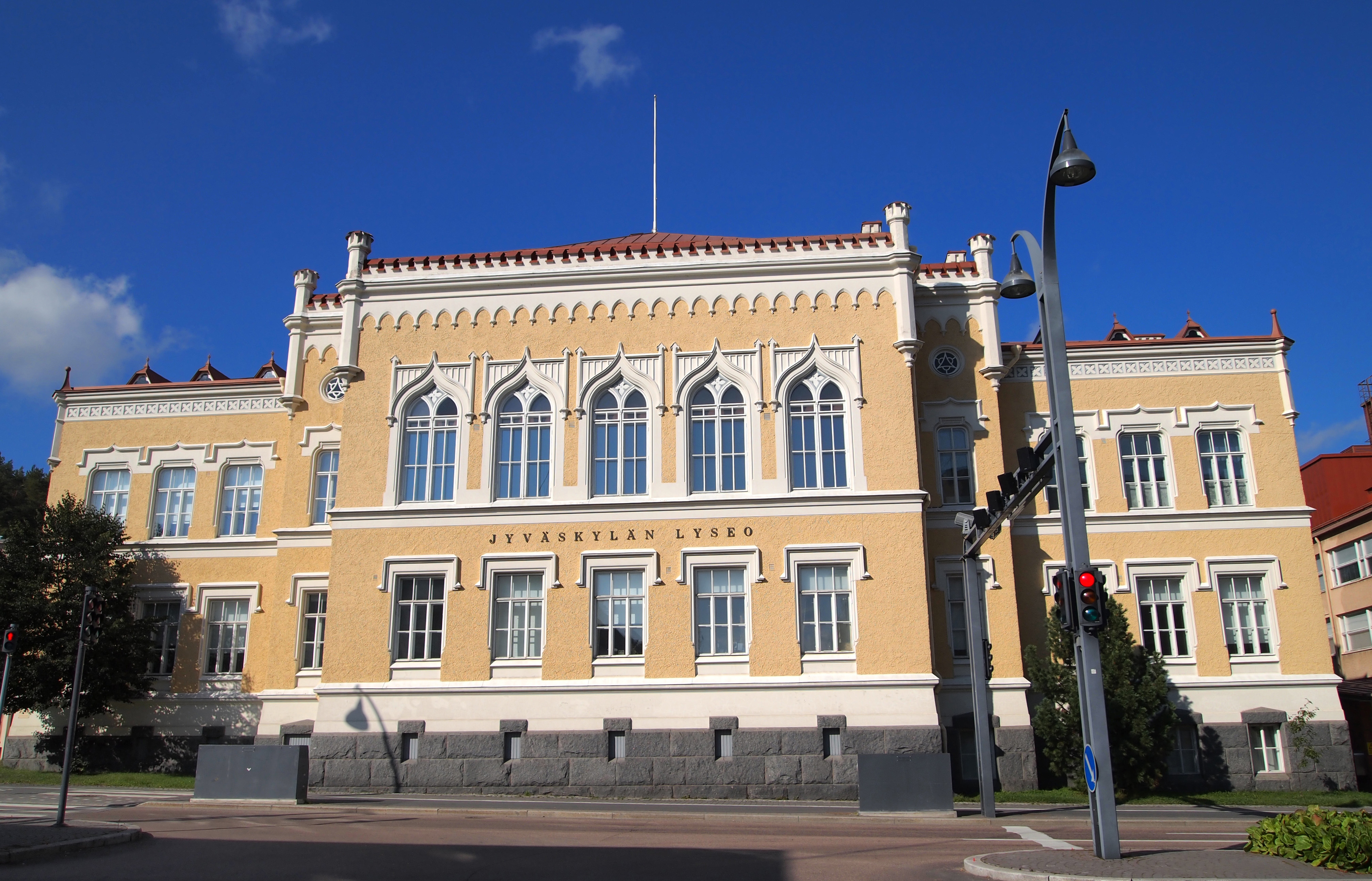 School "Jyväskylän lyseo" in Jyväskylä. This photograph was taken with a Olympus E-PL1.